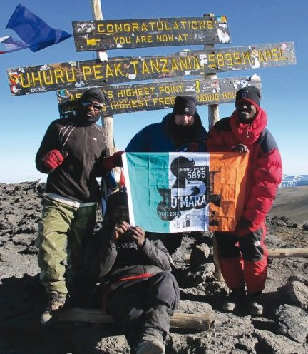 Seven summits challenge. Summit NO: 1 of 7. Sean O Mara on the Summit of Kilimanjaro. August 7th 2010